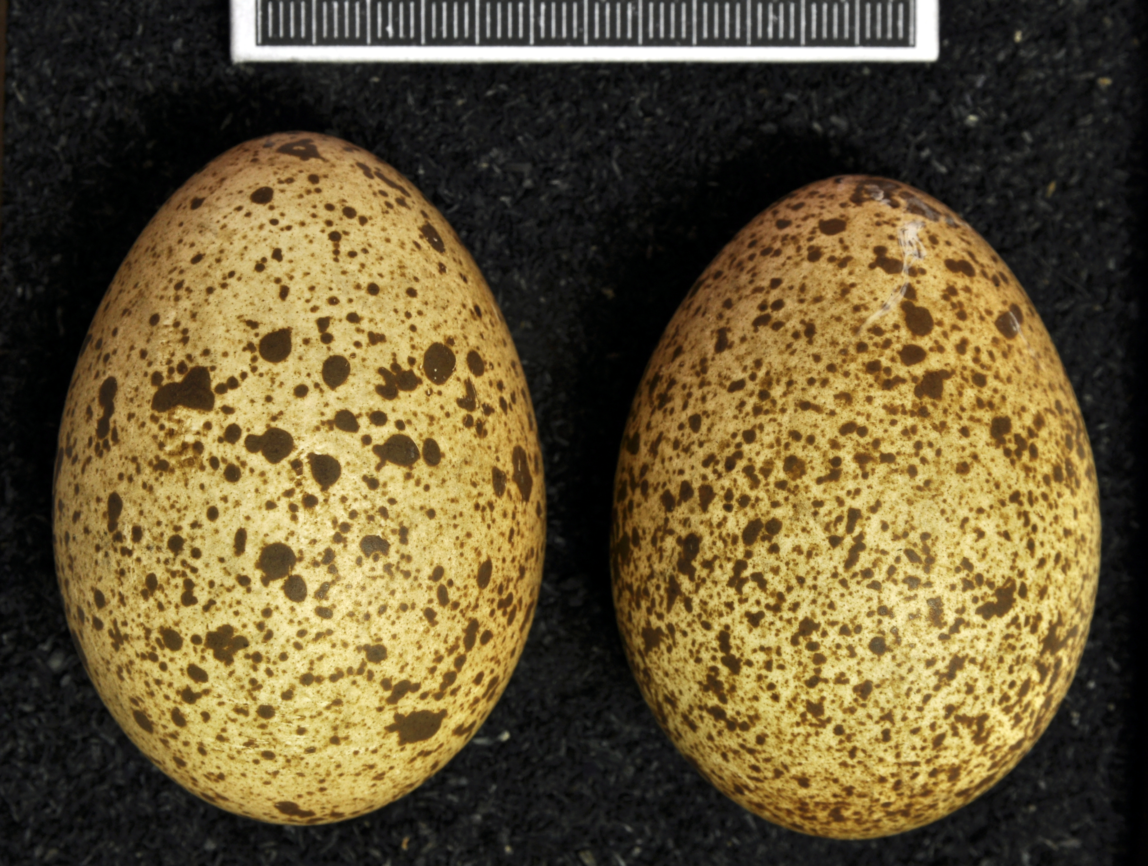 Himalayan monal Lophophorus impejanus , egg, Coll. Museum Wiesbaden